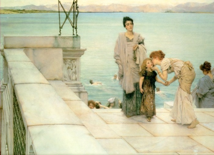 Lawrence Alma-Tadema's art